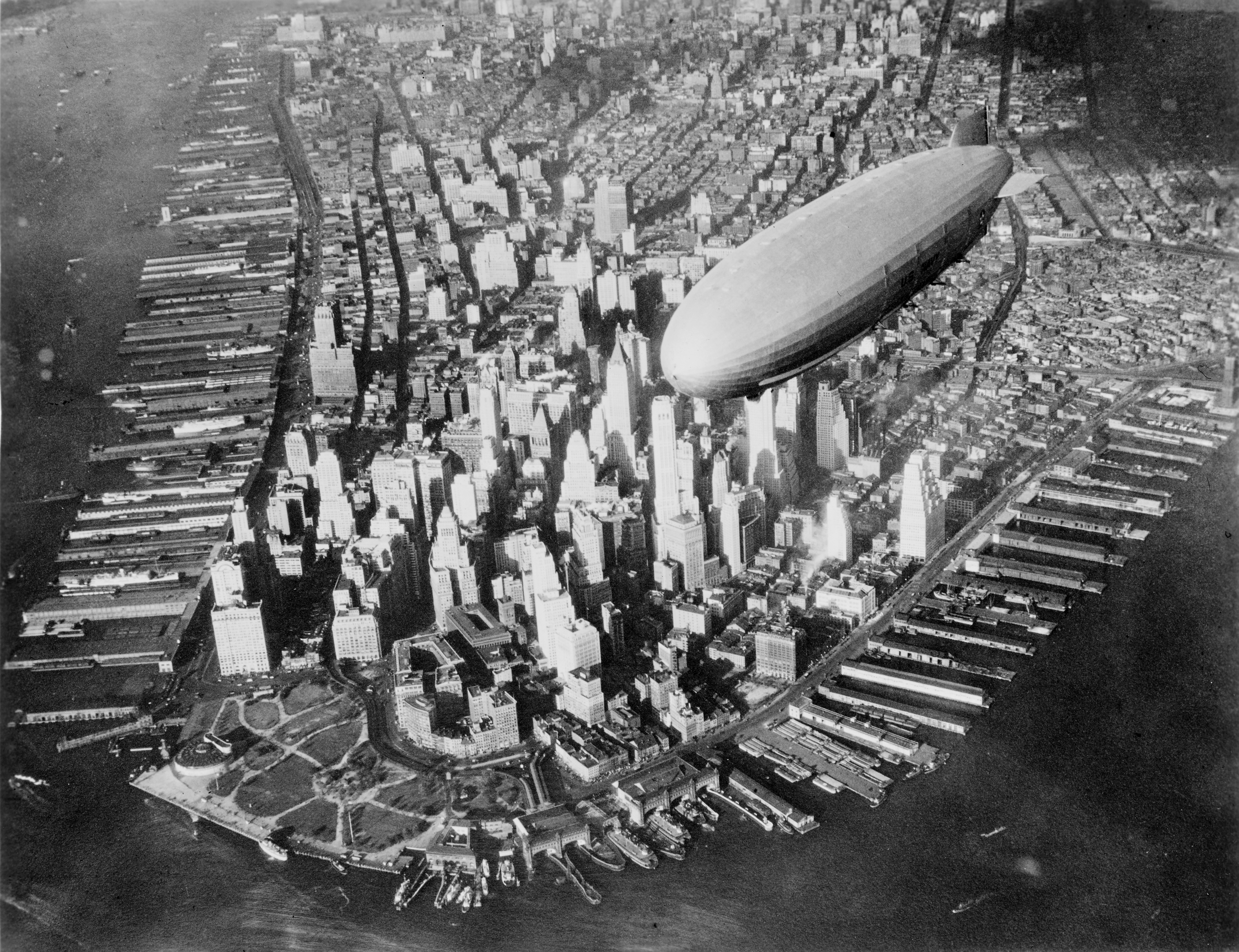 The U.S. Navy airship USS Akron (ZRS-4) flying over the southern end of Manhattan, New York, New York, United States, circa 1931-1933.